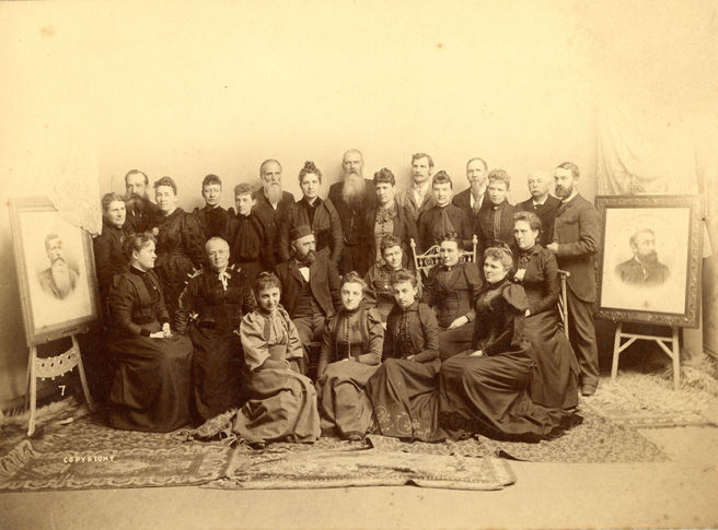 Standing, far left among colleagues, Lucy Washburn is credited with creating, editing Normal’s first history. Photo supplied by SJSU Special Collections and Archives